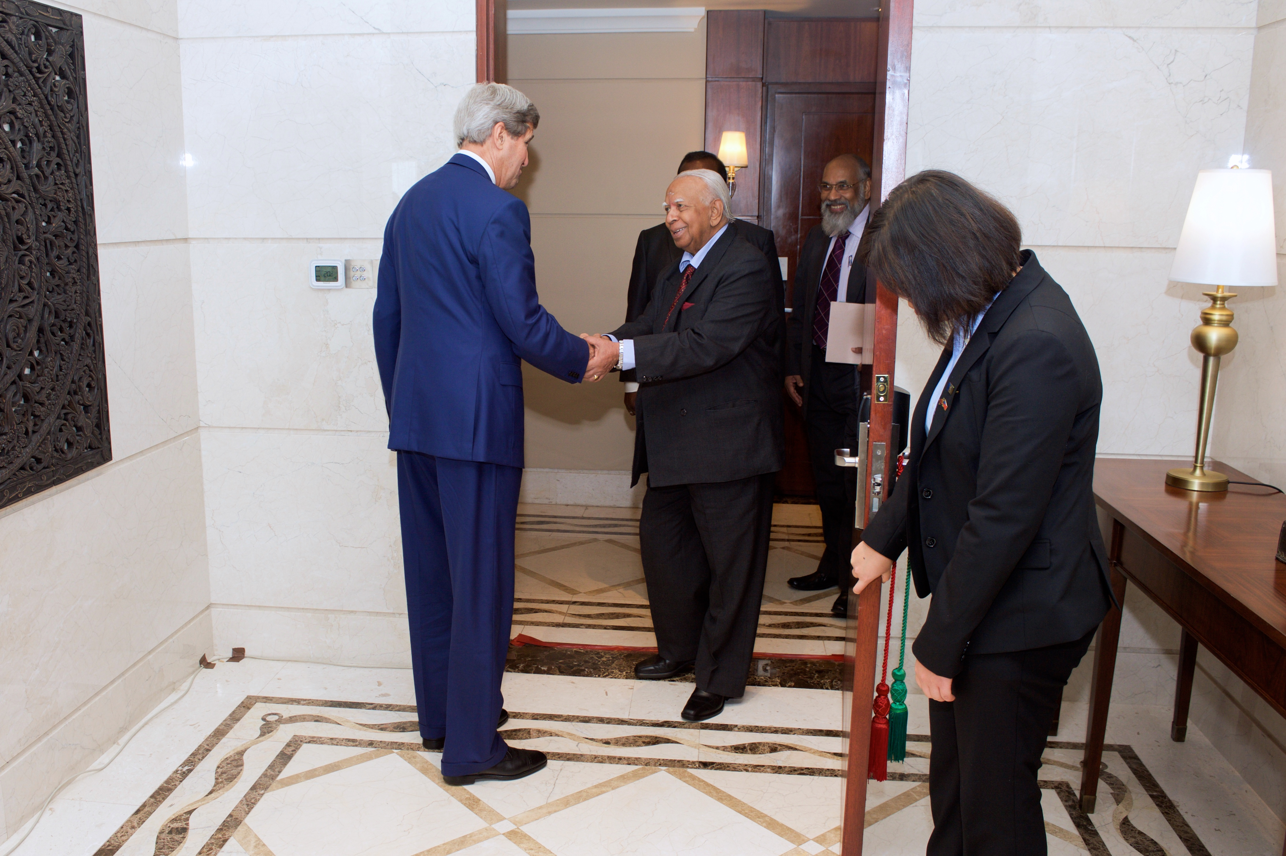 U.S. Secretary of State John Kerry shakes hands with Tamil National Alliance Leader R. Sampanthan as he arrives for a meeting on May 3, 2015, in Colombo, Sri Lanka, as the Secretary paid the first official visit to the island-nation by someone in his office in 43 years. [State Department Photo/Public Domain]